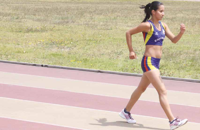 racewalking